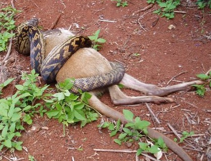 Australian Scrub Python (Morelia kinghorni) swallows a small Kangaroo (Macropodidae) in NE Queensland south of the Daintree rainforest, Australia. This picture was originally taken by a friend of Twin Peaks